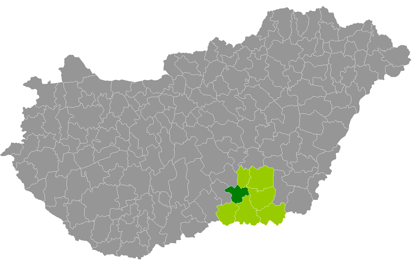 Location of Kistelek District, Csongrád, Hungary